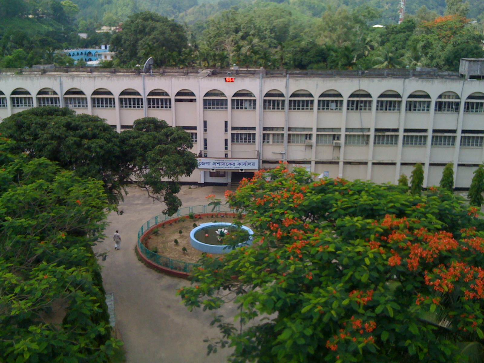 Deputy Commissioner (DC) Office, Bandarban District, Bangladesh.